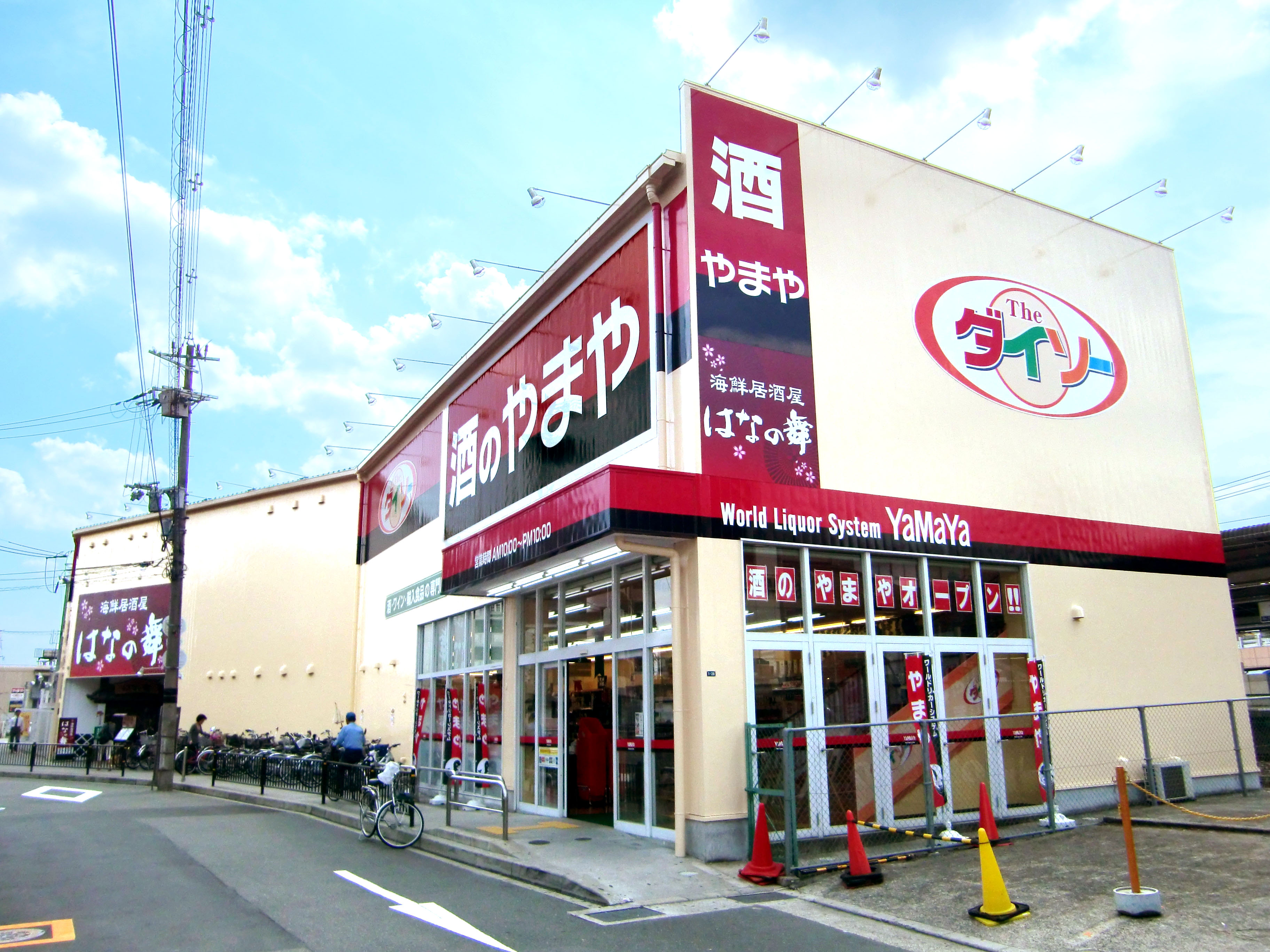 YaMaYa JR Ibaraki-Ekimae,1-28 Nishichujocho Ibaraki-City Osaka Japan.